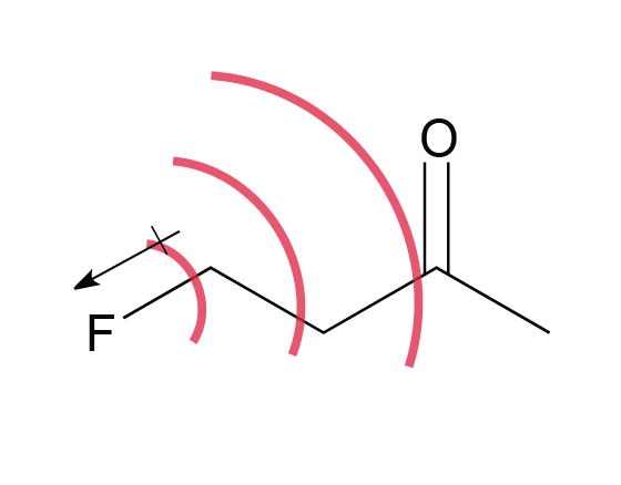 Field effect resulting from the dipole moment of C-F bond